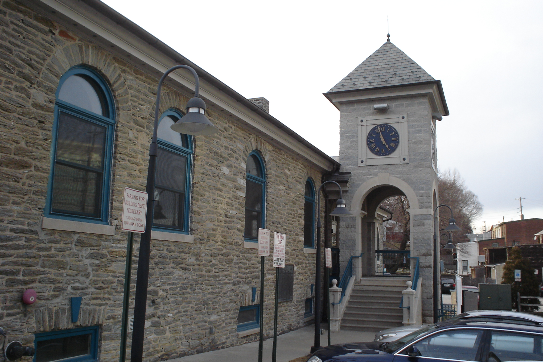 West Conshohocken's Borough Hall at 112 Ford Street, West Conshohocken, PA 19428, March 2007, taken by me.